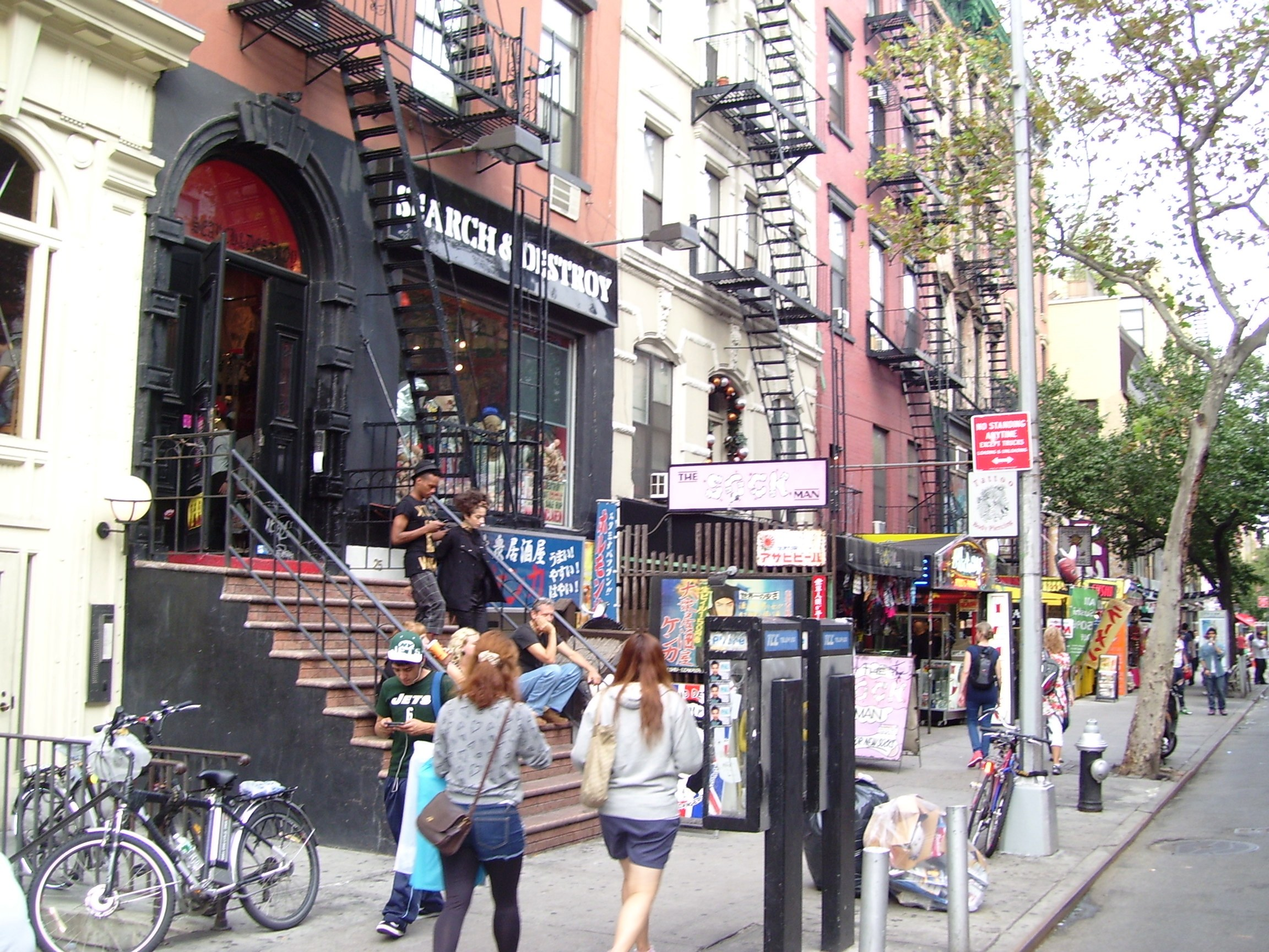 St. Marks Place between Third and Second Avenues is one of the main commercial streets of the East Village neighborhood in Manhattan, New York City.